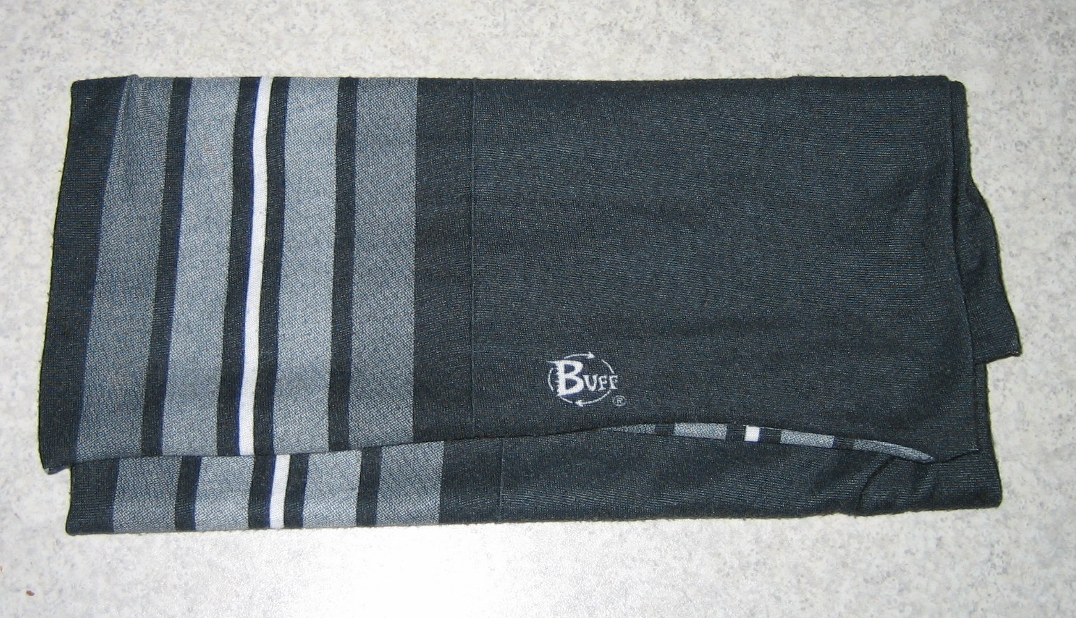 Buff headgear folded with the logo on it